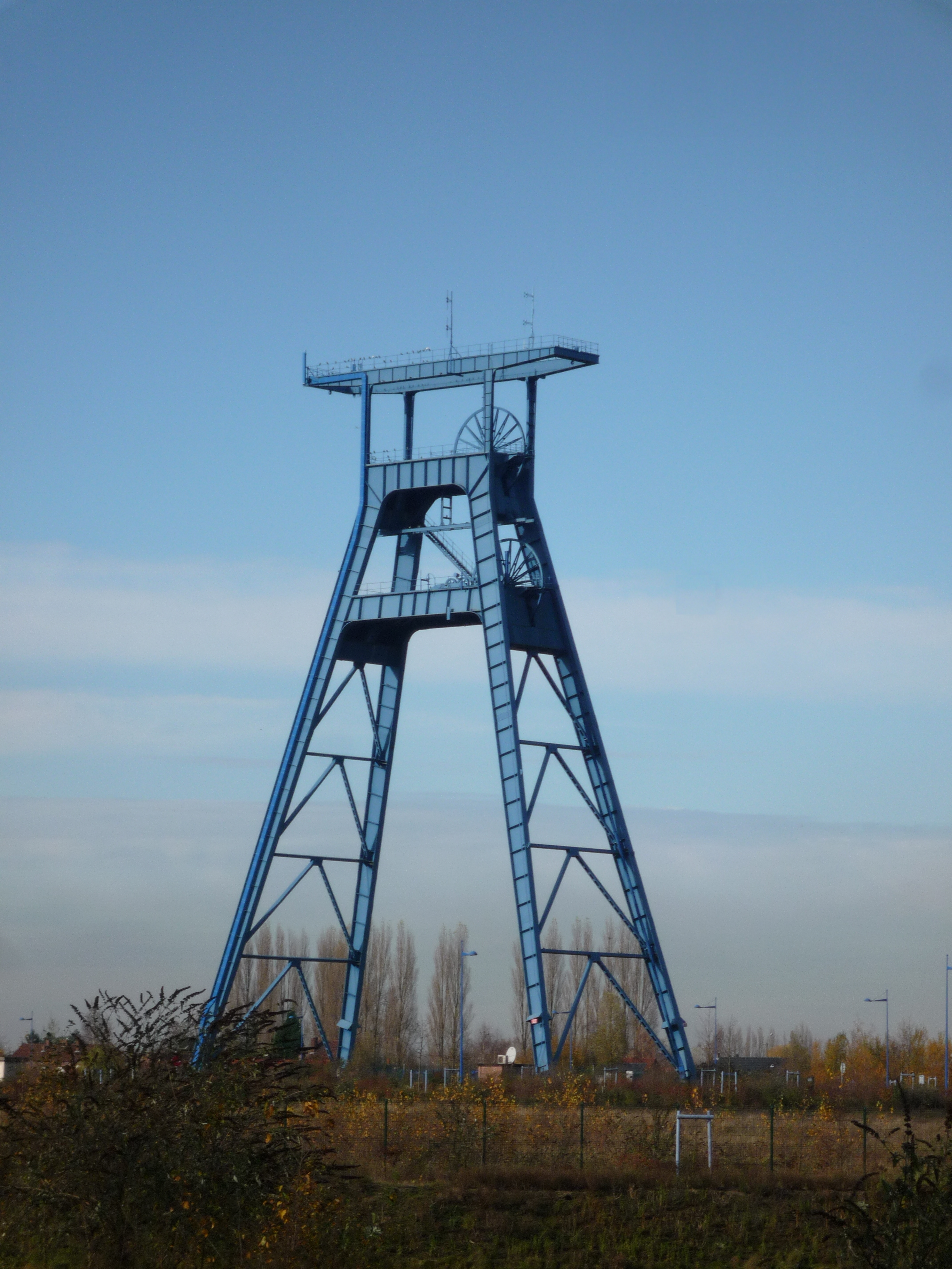 Pit number 9, Compagnie des mines de l'Escarpelle, Roost-Warendin, Nord, Nord-Pas-de-Calais, France.